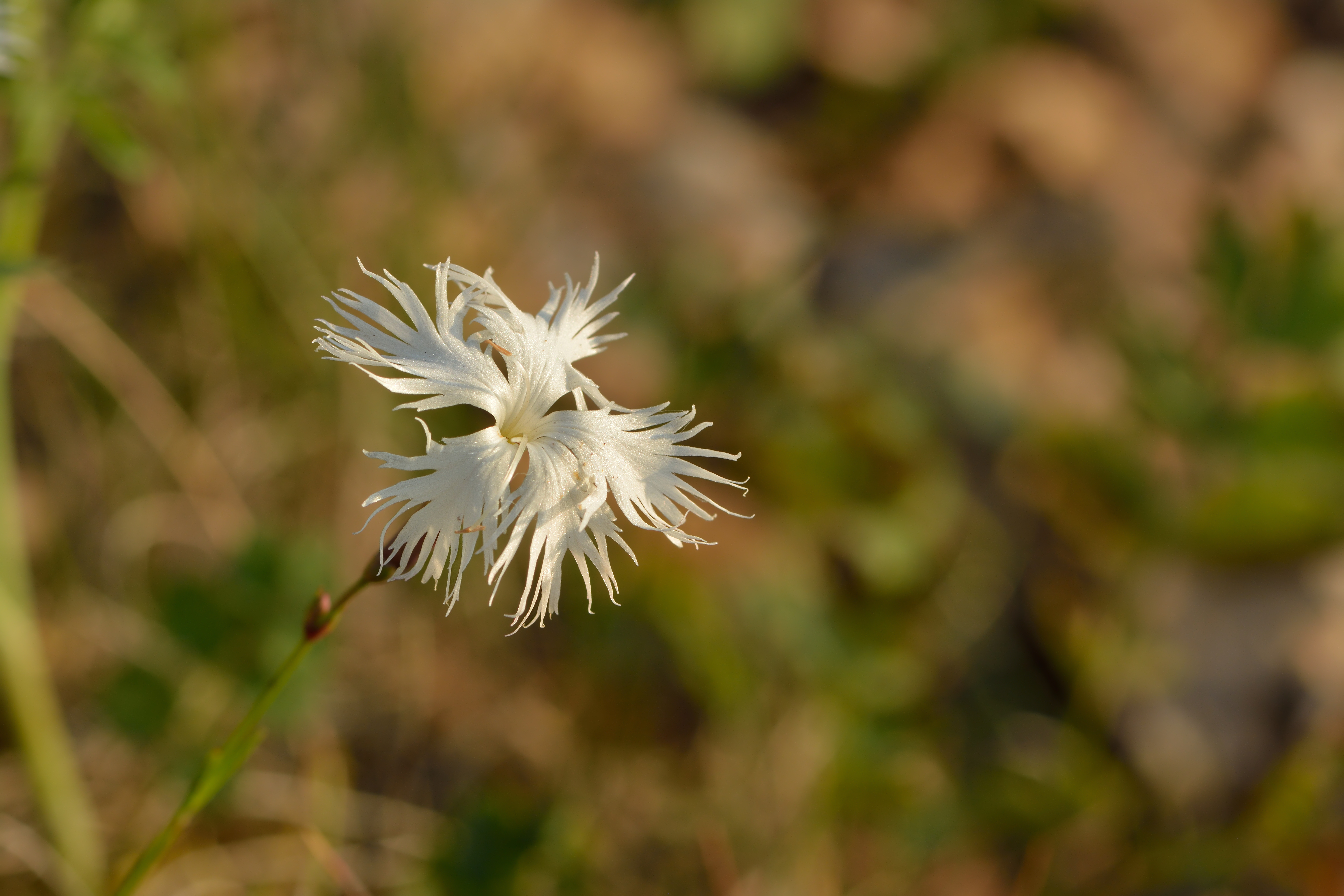 A rare and localised subspecies of sand pink (Dianthus arenarius ssp. arenarius), natural habitat on Pakri cliff, Northwestern Estonia. It belongs in Estonia to the category II of protected species. European Topic Centre on Biological Diversity conservation status: annex II and IV.